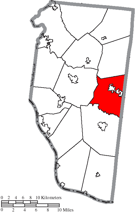 Map of the municipal and township boundaries of Clermont County, Ohio, United States, as of the 2000 census, with the location of Williamsburg Township highlighted. Township borders are shown only in unincorporated areas in order to differentiate incorporated and unincorporated areas more clearly.